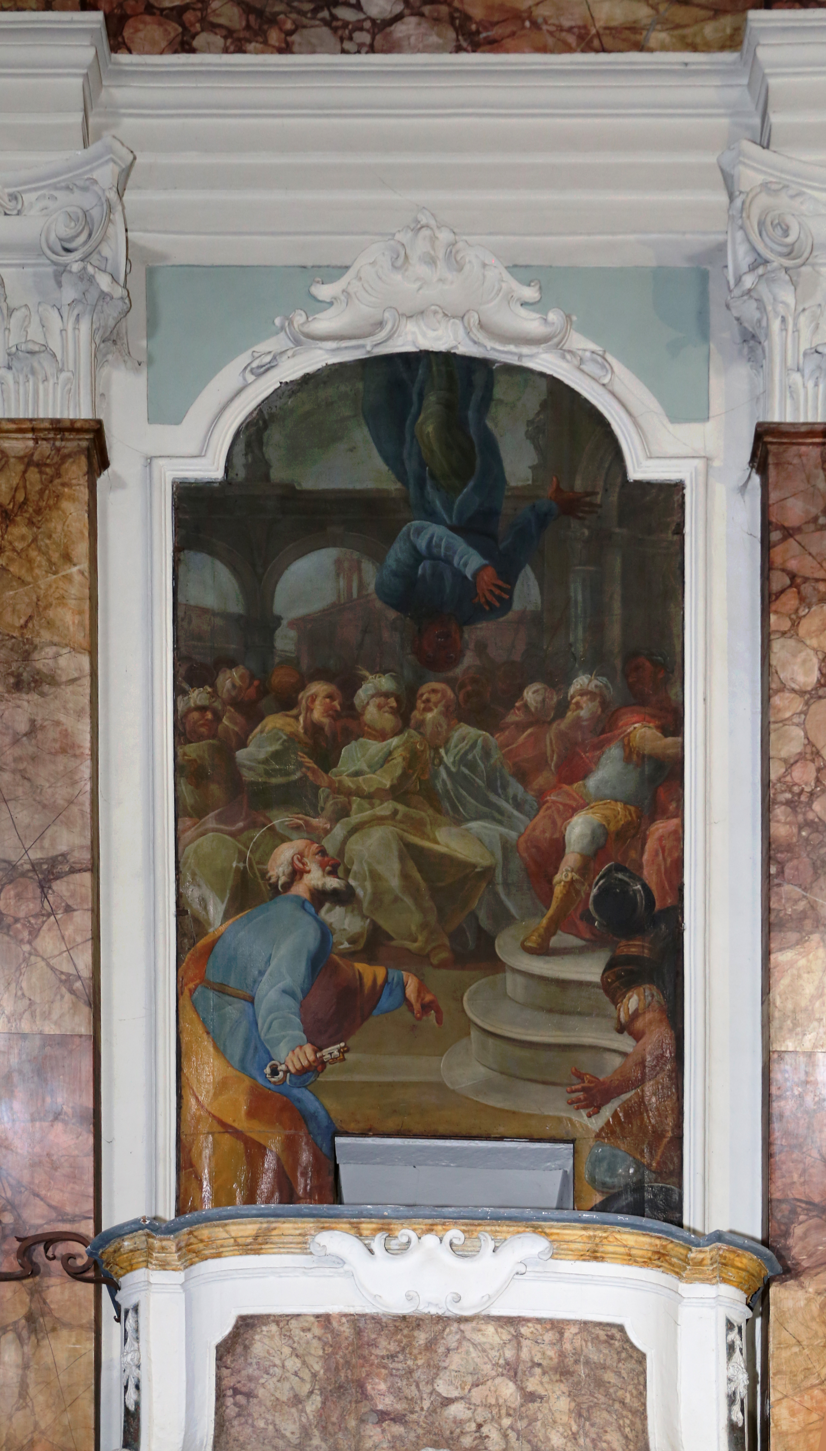 Santissimo Crocifisso (Borgo a Buggiano)